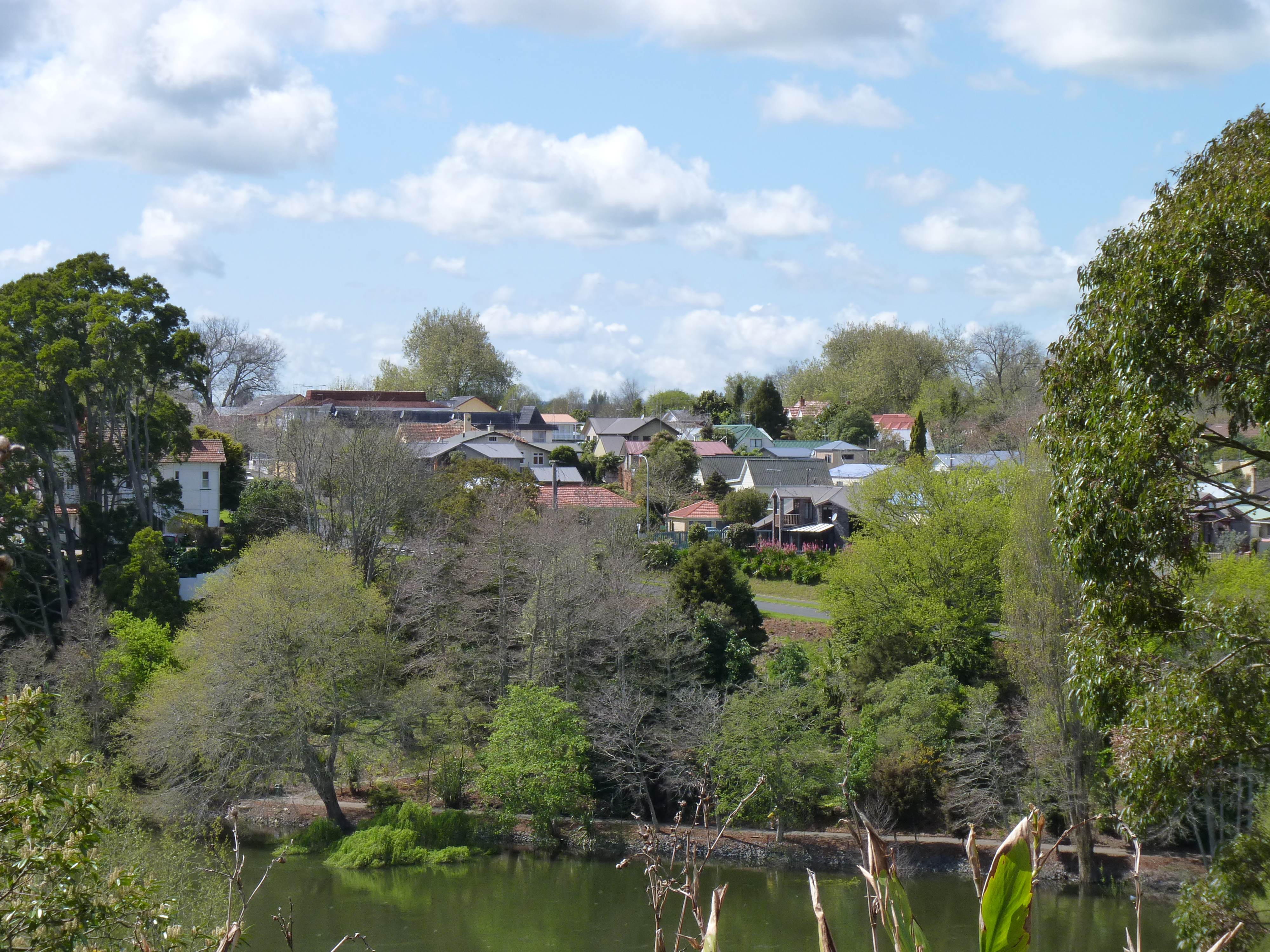 Hamilton East. Photo taken from Hamilton West, across the Waikato River.